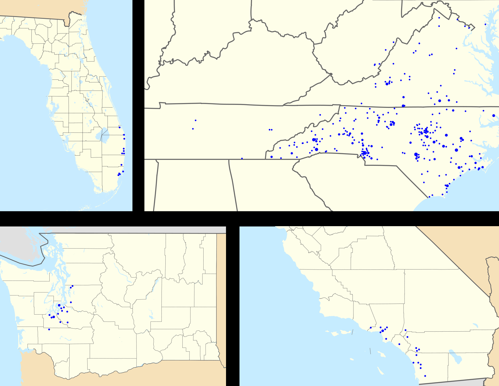 Footprint of First Citizens BancShares within the United States. Zip codes with more than one branch have progressively larger points. From the upper left, clockwise: Florida, the North Carolina/Virginia area, southern California, and Washington. Image is to scale.